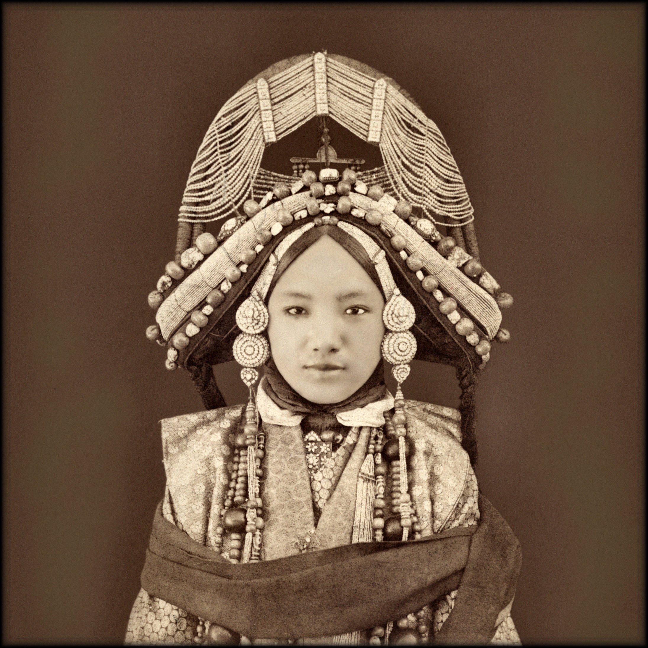 Entitled: Tibetan Lhacham (Princess), Tibet [c1879] Sarat Chandra Das [RESTORED]. I did simple spotting and scratch reduction, contrast and tone adjustments, and then had to repair a series of what appeared to be deep emulsion cracks that were spread across her face like she had been tattooed by static electricity. I then cropped the extra top and added a bit of background horizontal to make a squared image. The original resides in one of those "they're holding it for the sake of mankind" syndicates called the Royal Geographical Society. Meanwhile nobody gets to ever see any of this stuff unless they pay for it; that's the new meaning of public domain. According to Journey to Lhasa and central Tibet p. 119 by Sarat Chandra Das: The next day we reached Dongtse by 4 o'clock in the afternoon. We found the Dahpon's wife, a lady of about thirty, and his sister, Je-tsun Kusho, in the central room of the fifth floor of the castle (phodrang). The Lhacham was dressed in a Mongol robe; on her head was a crown-shaped ornament studded with precious stones and pearls of every size. Pearl necklaces, strings of amber and coral hung over her breast, and her clothes were of the richest Chinese satin brocades and the finest native cloth.